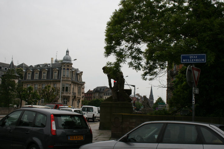 Photos from the road-sign 'Quai Müllenheim' in Strasburg.